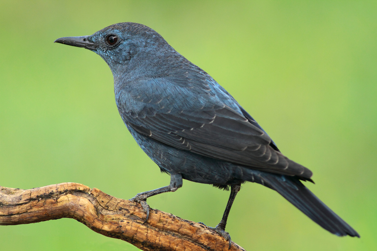 Blue rock thrush, male, Spain